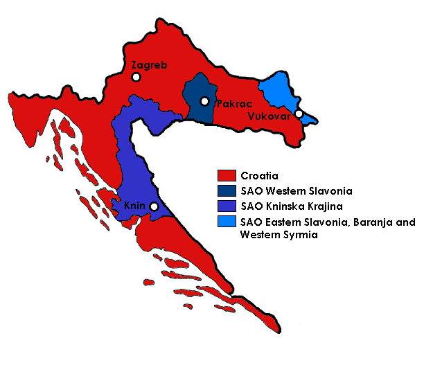 Map of Croatia in 1990,with autonomous regions of SAO Kninska Krajina,SAO Western Slavonia and SAO Eastern Slavonia, Baranja and Western Syrmia